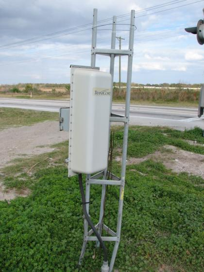 Trackside Automatic equipment identification (AEI) reader